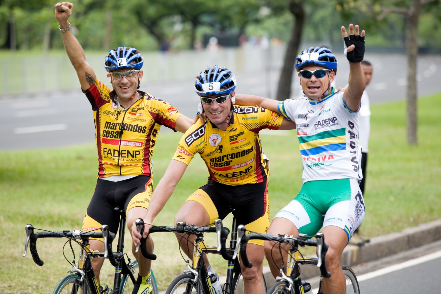 Brazilian road cyclists Daniel Rogelim, Márcio May and Nilceu Santos from the Scott-Marcondes Cesar team after the 2008 Copa America. Márcio May retired after this race.